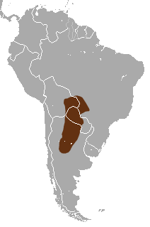 Southern Three-banded Armadillo (Tolypeutes matacus) range